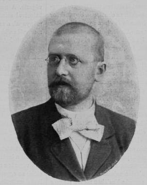 Portrait of the actor Count Andor Festetics